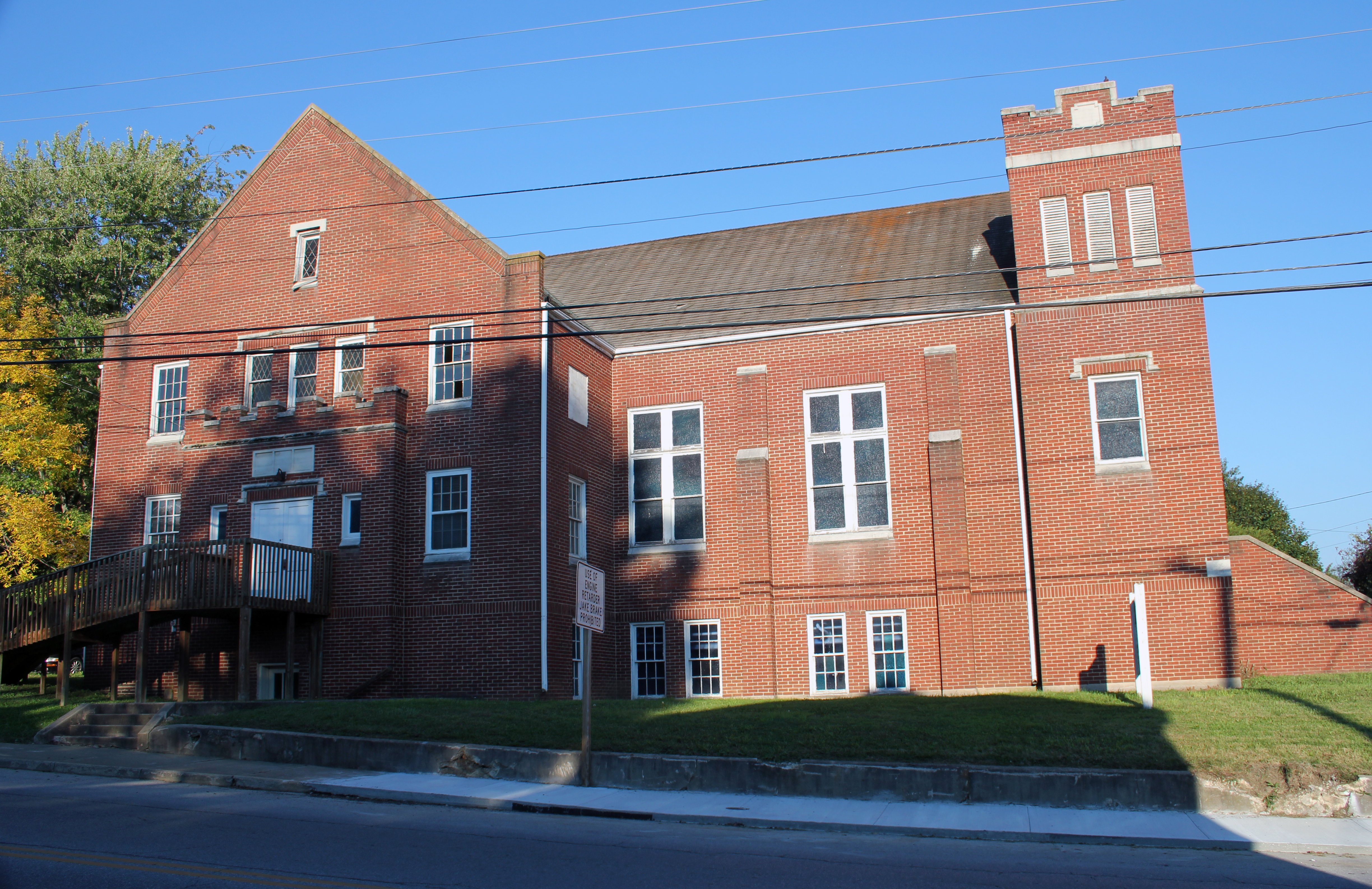 Historic Cambria section of Christiansburg, VA at corner of Cambria and Montgomery Streets